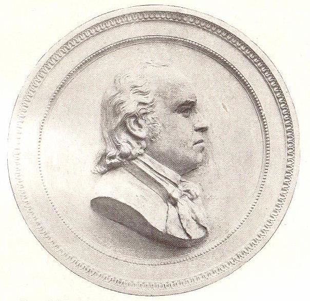 Portrait of Jacob Rijf by Erik Cainberg